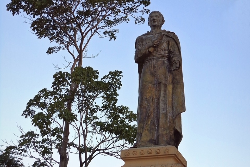 Statue of Jose Matias Delgado located in San Salvador